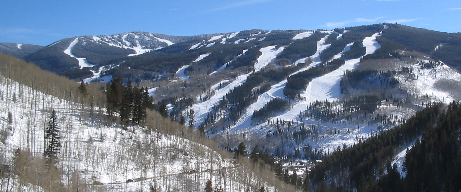 The front side of the ski area at Vail, Colorado, seen from Red Sandstone Road, which is north of the town. A small section of the town of Vail can be seen at the base of the mountain. David Benbennick took the photo on Sunday, February 13, 2005.